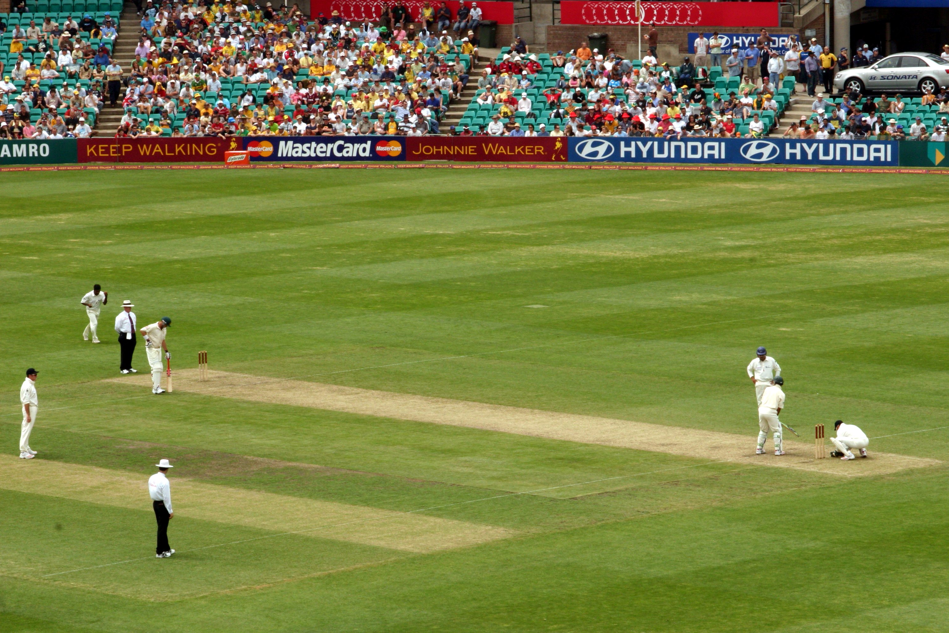 Muttiah Muralitharan bowling. Australia v World XI Sydney Cricket Ground, day 1 of 6